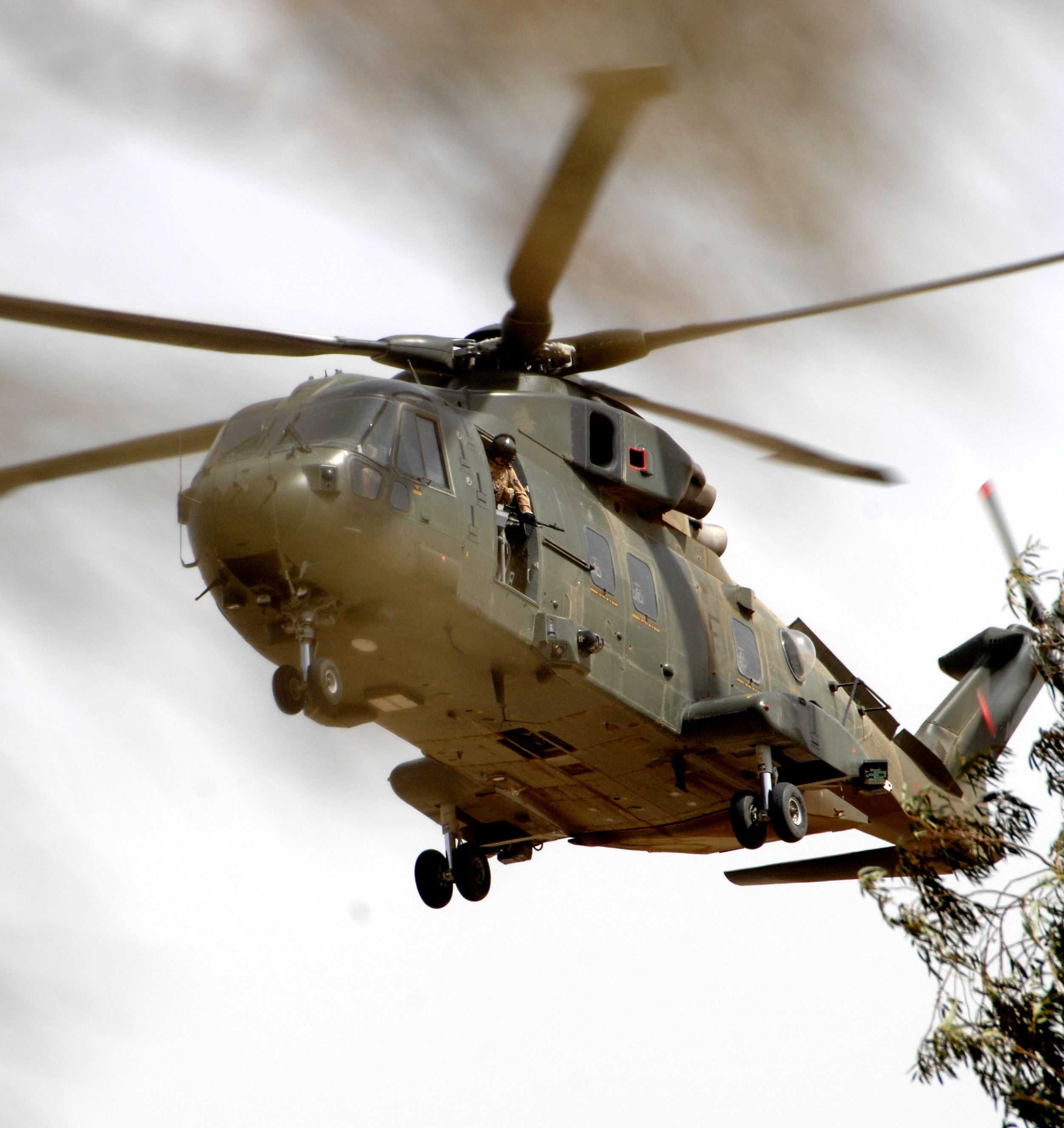 A British Merlin helicopter comes in for a landing in Al Fao, Iraq on Sept. 29, 2008.